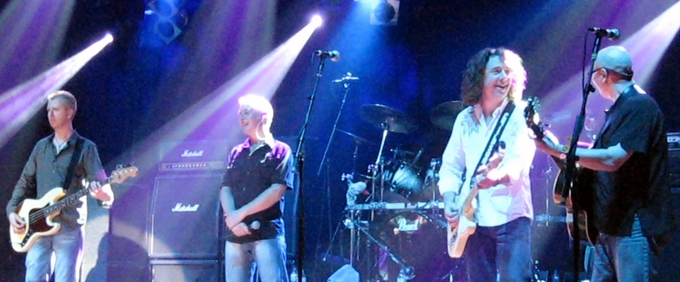 Thunder live wolverhampton 2006